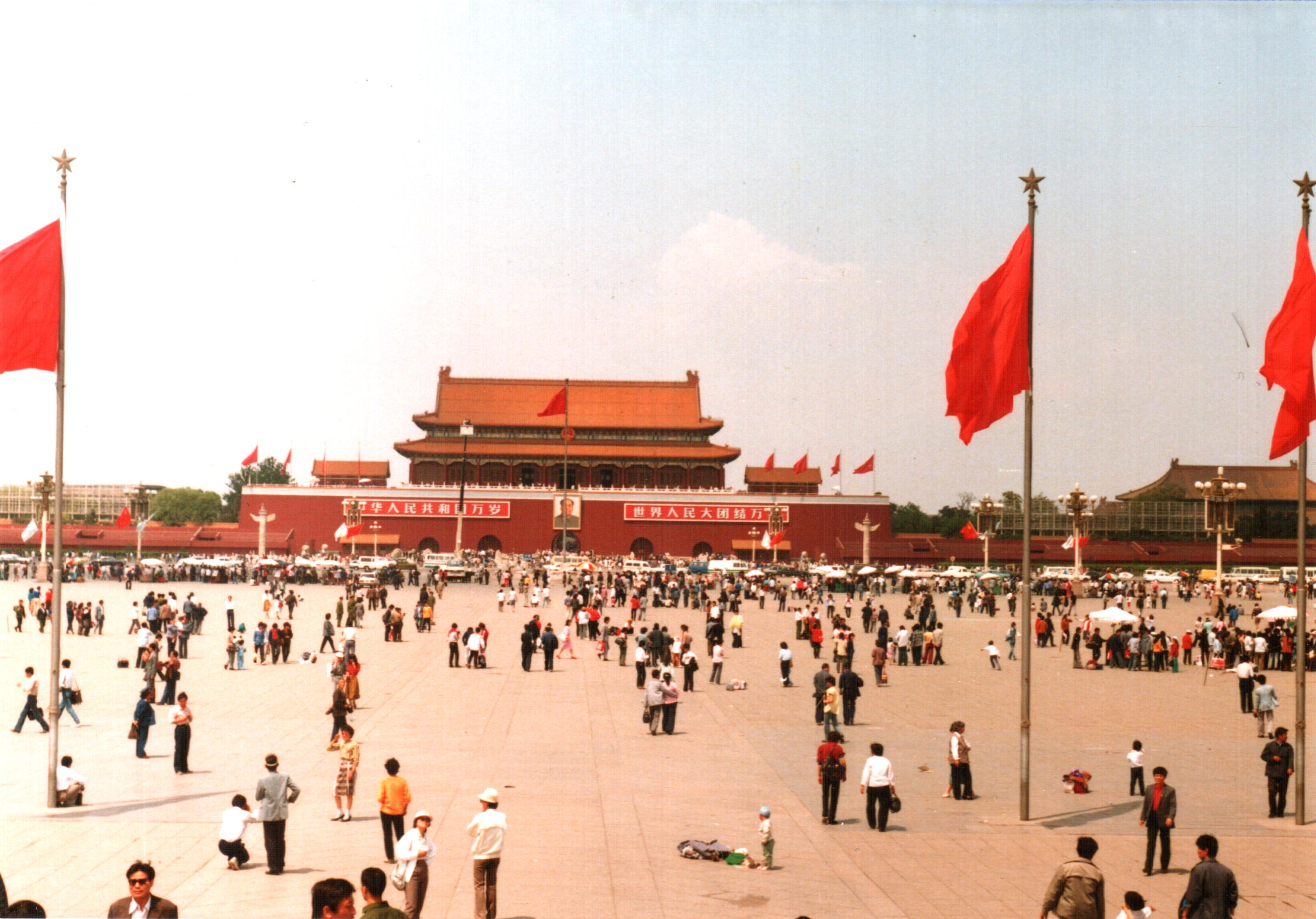 Live in May 1988. Tiananmen Square, Beijing, China. On the wall: Long live the People's Republic of China, Long live the unity of the people of the world". I had to travel to China, then to North Korea. One day – just relaxing in Budapest – next day on a jet over the gulf. We saw the cannon firing beneath (Iran-Iraq war, 1980-1988. China was a mystery, another planet at the time. Flying homebound I read the Chinese newspaper: János Kádár is gone. Published under Creative Commons in Metapolisz DVD line. Paper, Zenit-E. Tags: Tiananmen Square Beijing China 1988 People’s Republic of China Iran-Iraq War János Kádár Zenit E Metapolisz